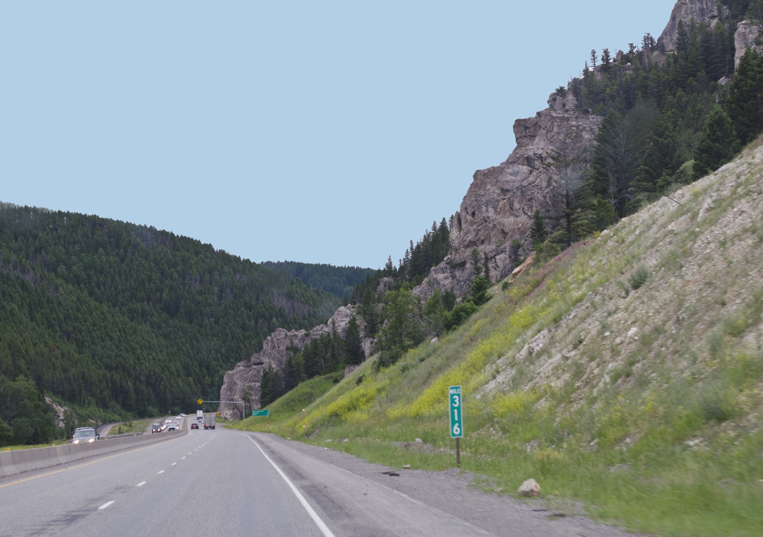 Traveling west on Interstate 90 through the Bozeman Pass in Montana.